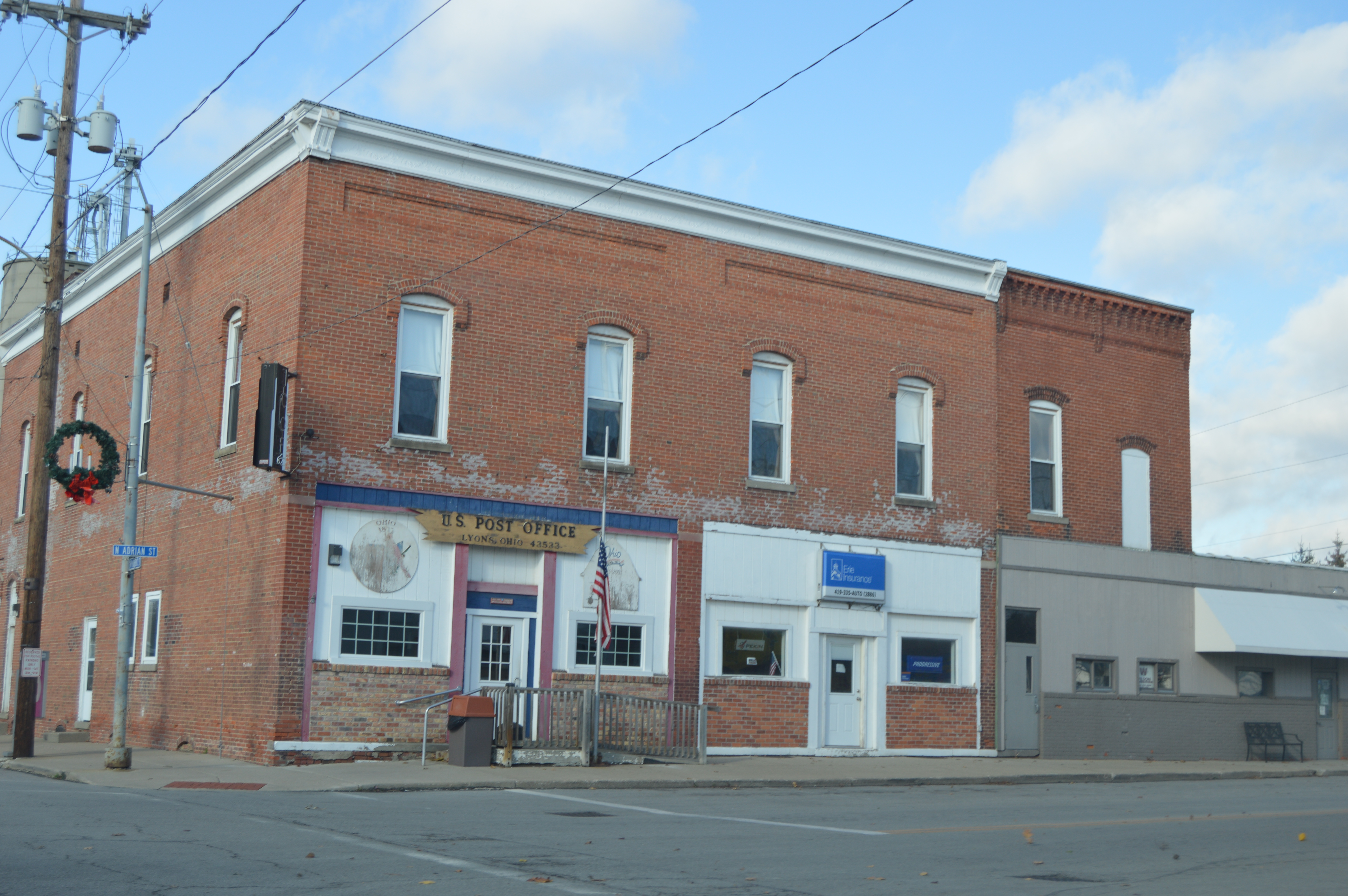 Commercial buildings (including the post office) on the western side of Adrian Street seen from the Morenci Street intersection in Lyons, Ohio, United States.